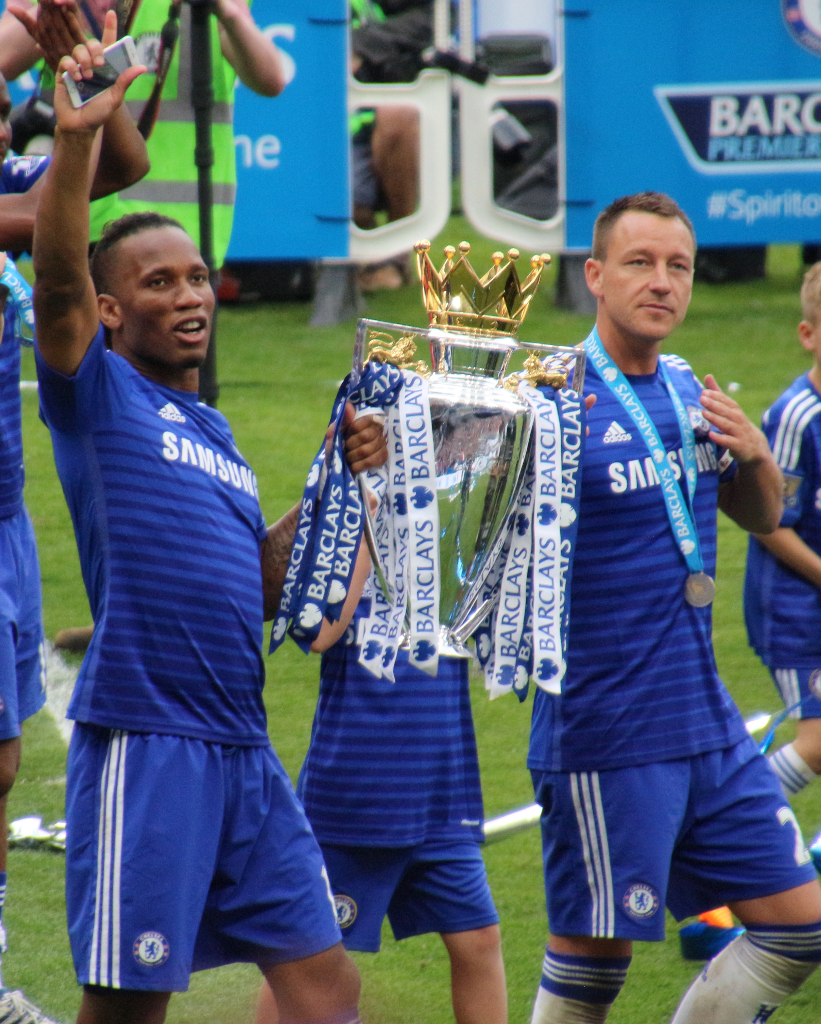 Chelsea 3 Sunderland 1 Champions!